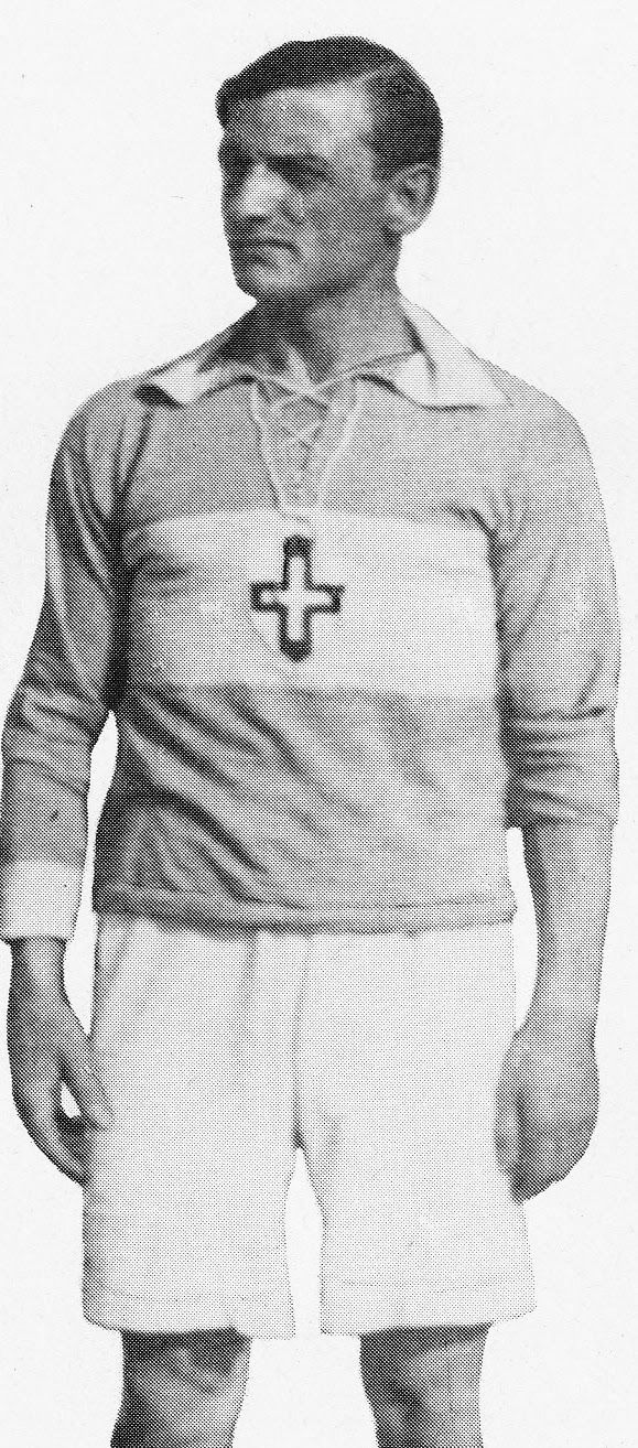 Italian footballer Luigi "Zizì" Cevenini (III) with U.S. Novese in the 1921–22 season.